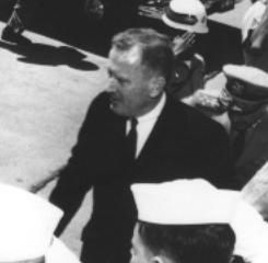 Paul B. Fay, former US Secretary of the Navy